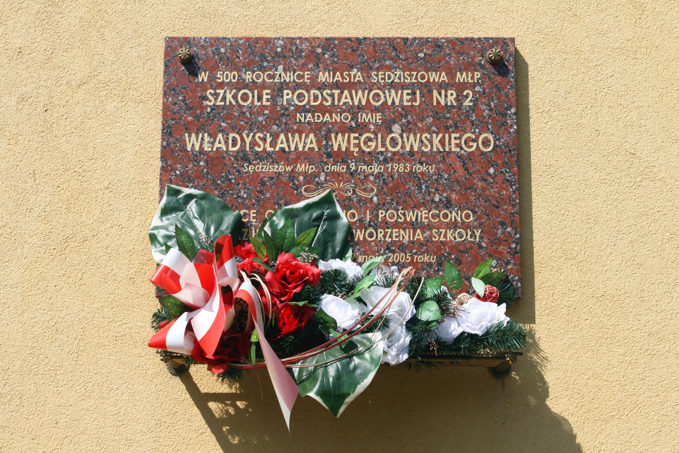 Memorial of Władysław Węglowski on Primary School No 2 in Sędziszów Małopolski, Poland